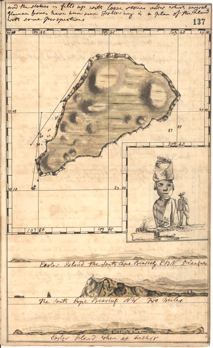 Map and sketches of Easter Island from J Gilbert's log of the voyage of HMS Resolution through the Pacific from 1772-5. This image is from the collections of The National Archives.Image no.3755157 .